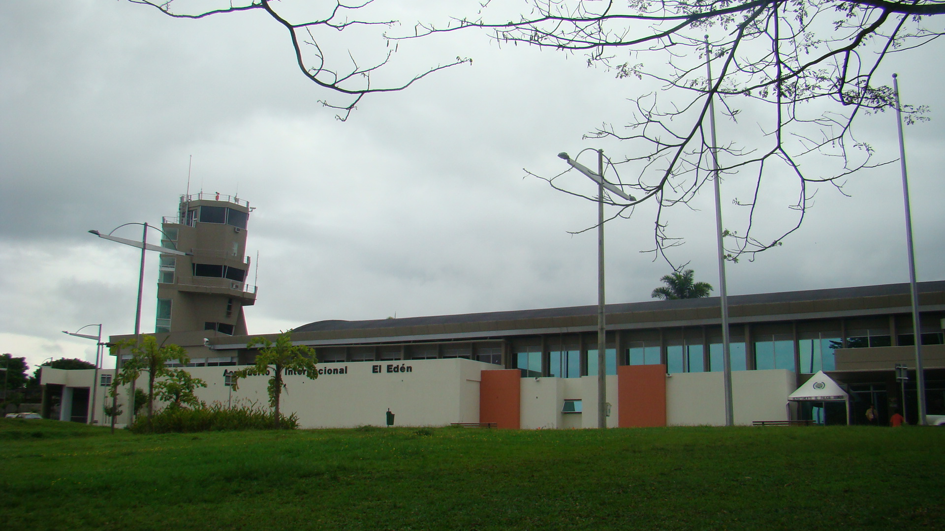 El Eden International Airport